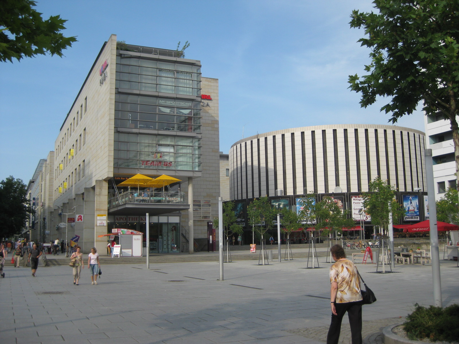 Woerl Plaza Building as seen from Prager Strasse, Dresden, Germany